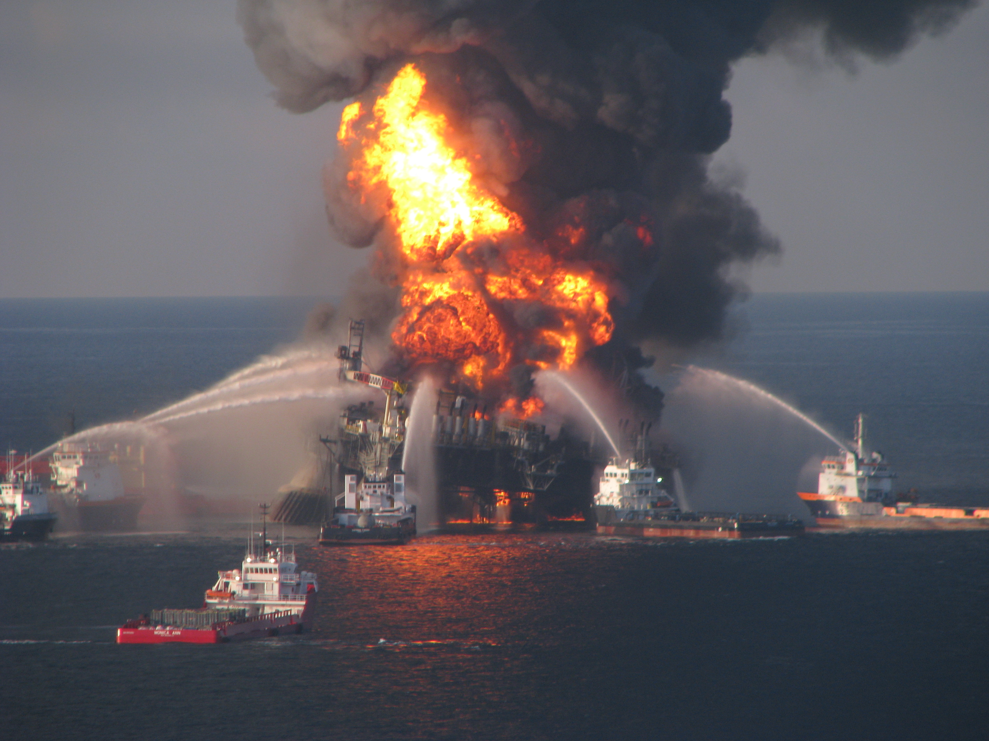 Fire boat response crews battle the blazing remnants of the offshore oil rig Deepwater Horizon. A Coast Guard MH-65C dolphin rescue helicopter and crew document the fire while searching for survivors. Multiple Coast Guard helicopters, planes and cutters responded to rescue the Deepwater Horizon's 126 person crew.